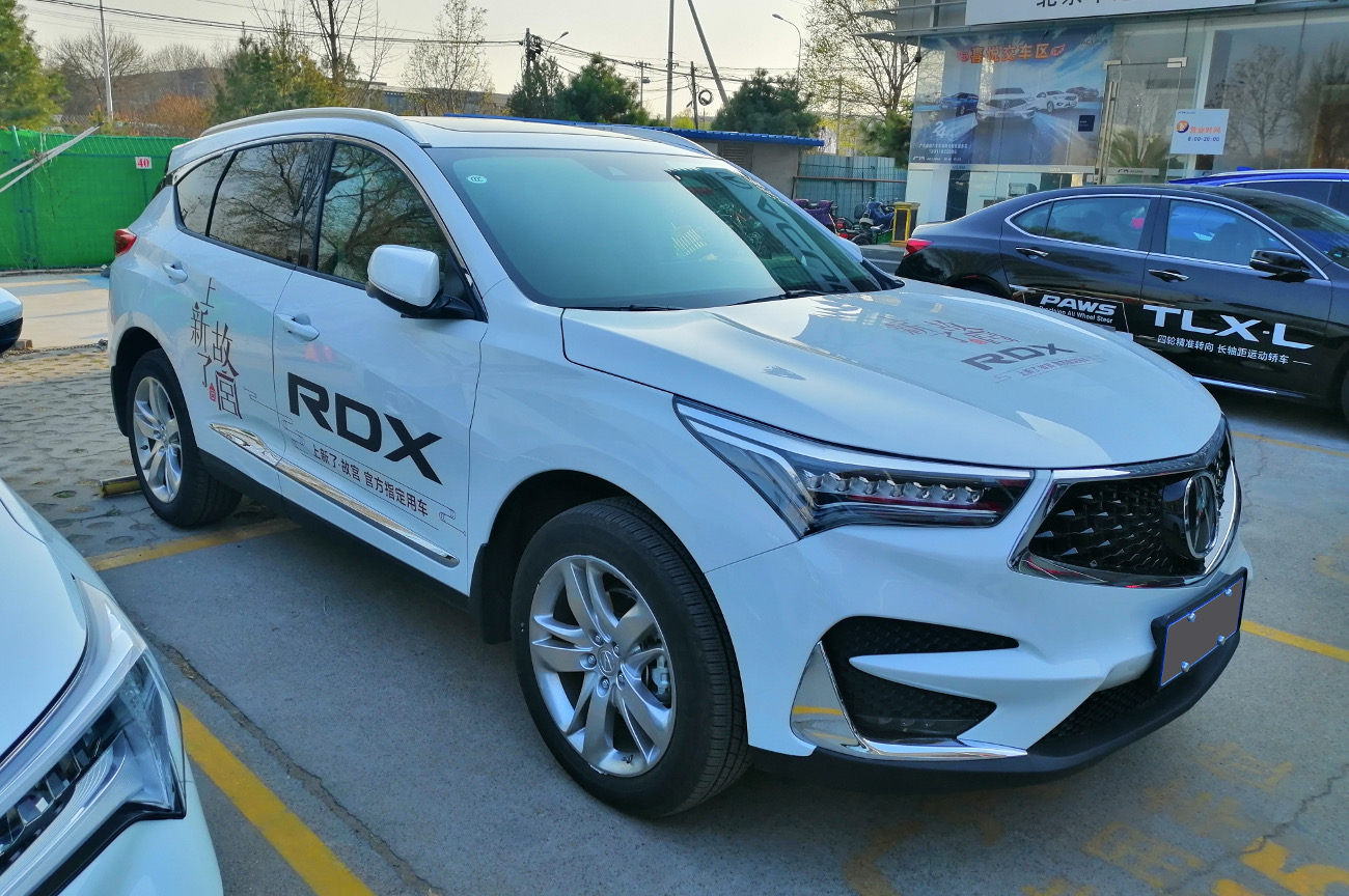 Acura RDX III photographed in Beijing, China.